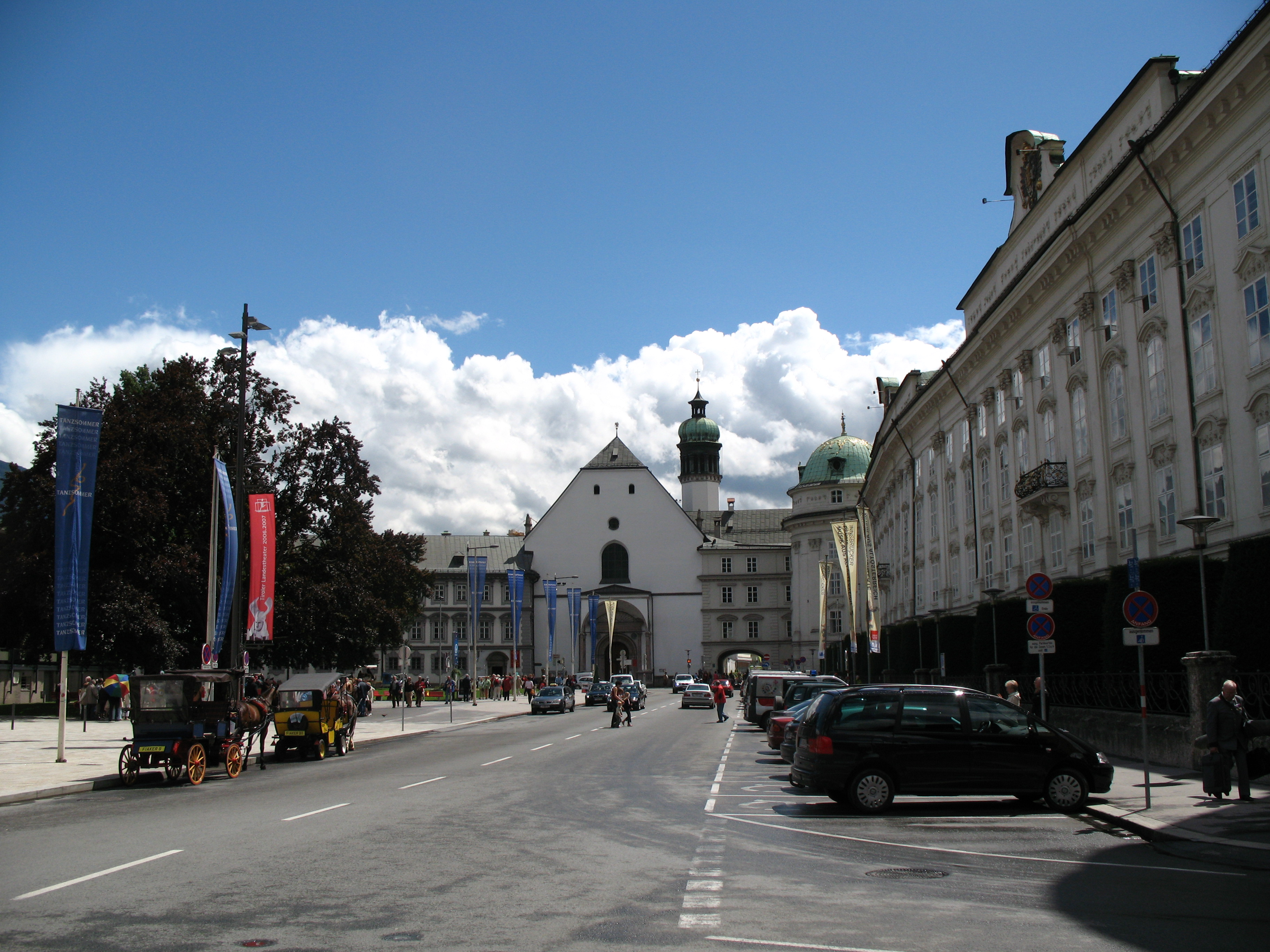 Racing Way, Innsbruck, Austria